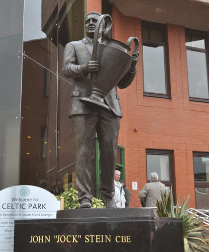 Jock Stein statue, created by the Sculptor John McKenna. Commissioned by Celtic Football Club as an entrance feature to the Parkhead Stadium, Celtic Park , Glasgow. Unveiled 5th March 2011 by the Celtic Chairman Jonn Reid and surviving members of the 1967 'Lisbon Lions' Celtic team. The over life-size bronze statue was cast at John McKenna's studio bronze foundry. Jock Stein was the first British football manager to take his team Celtic to win the European Cup back in 1967, he is considered as one of the top ten British football managers of all time.